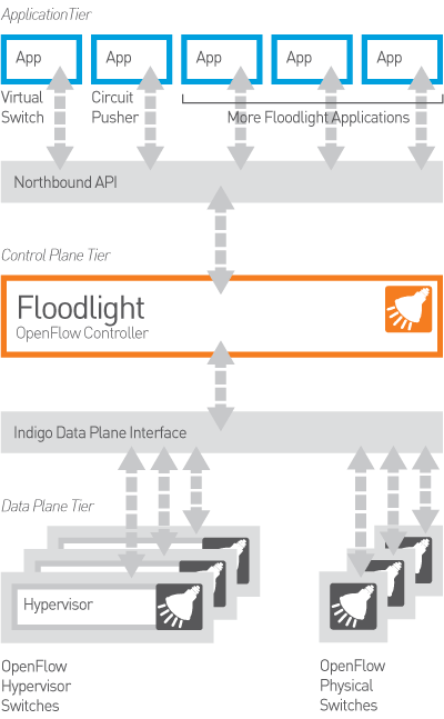 Монгол: Project floodlight infographic